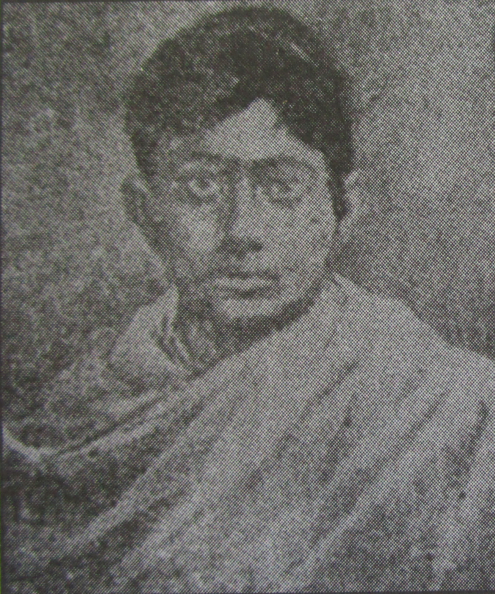 Nirmal Jiban Ghosh